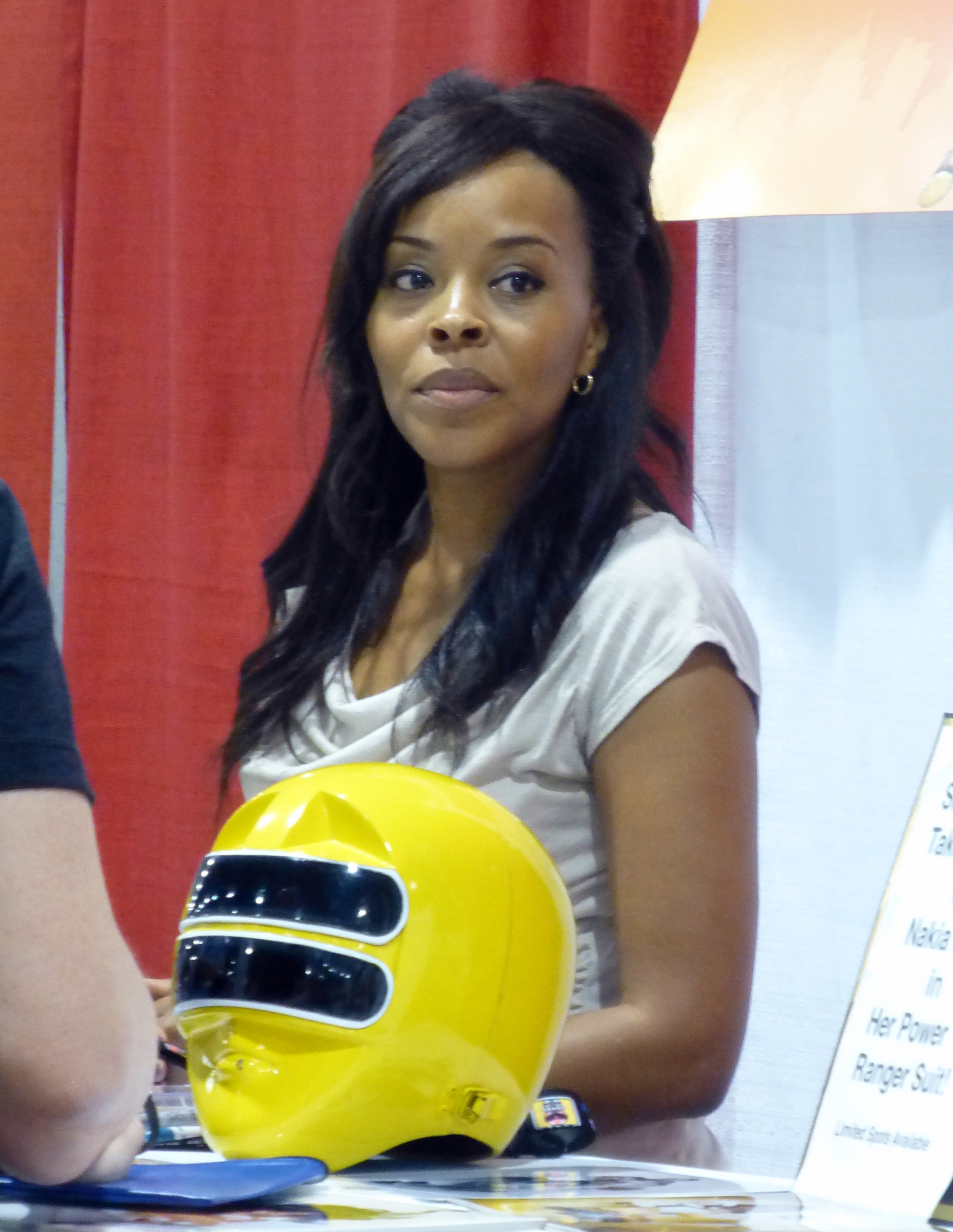 Nakia Burrise Motor City Comic Con 2015